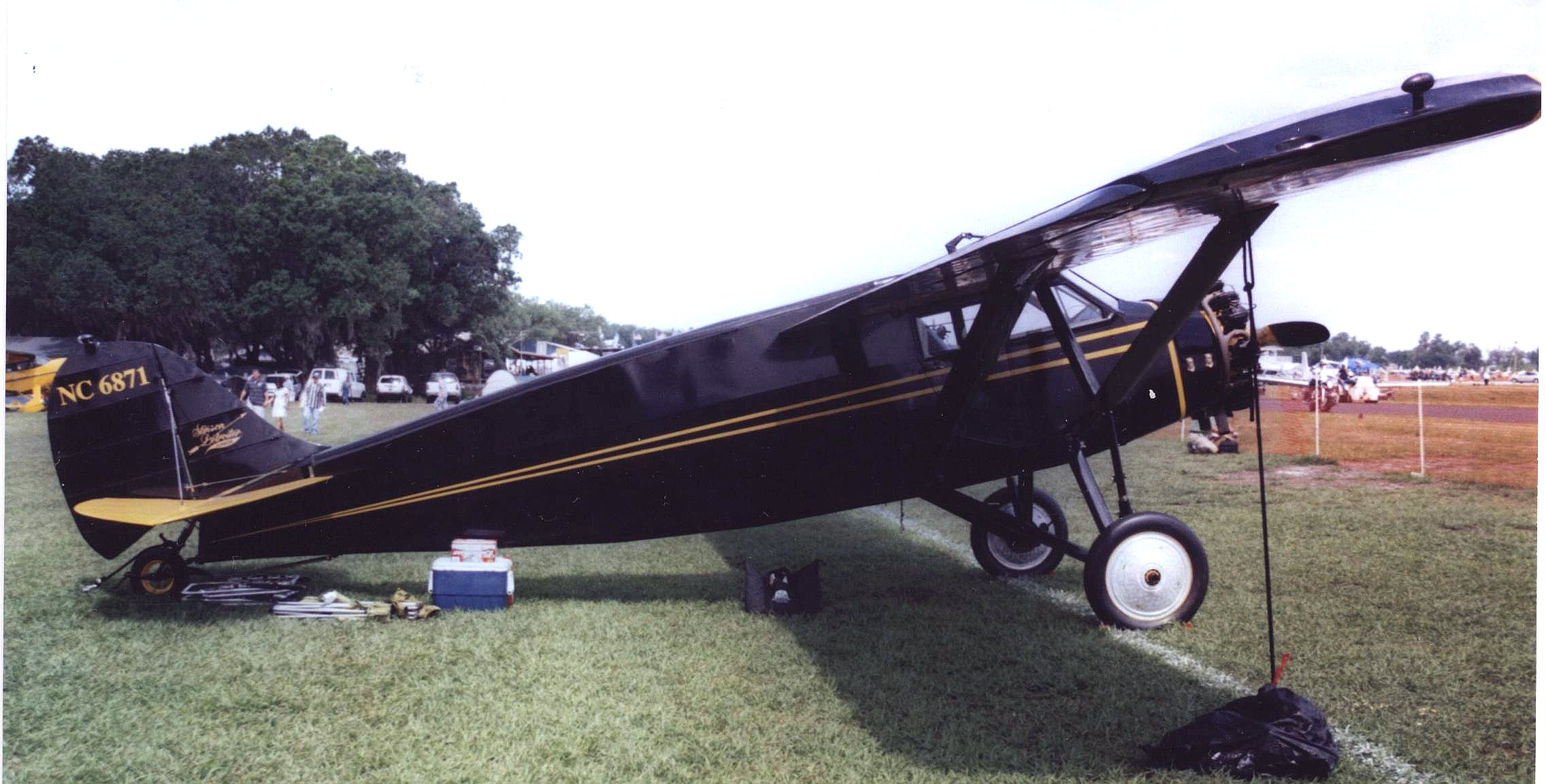 Stinson SM-2 Junior NC6871 built 1928 at Lakeland Florida